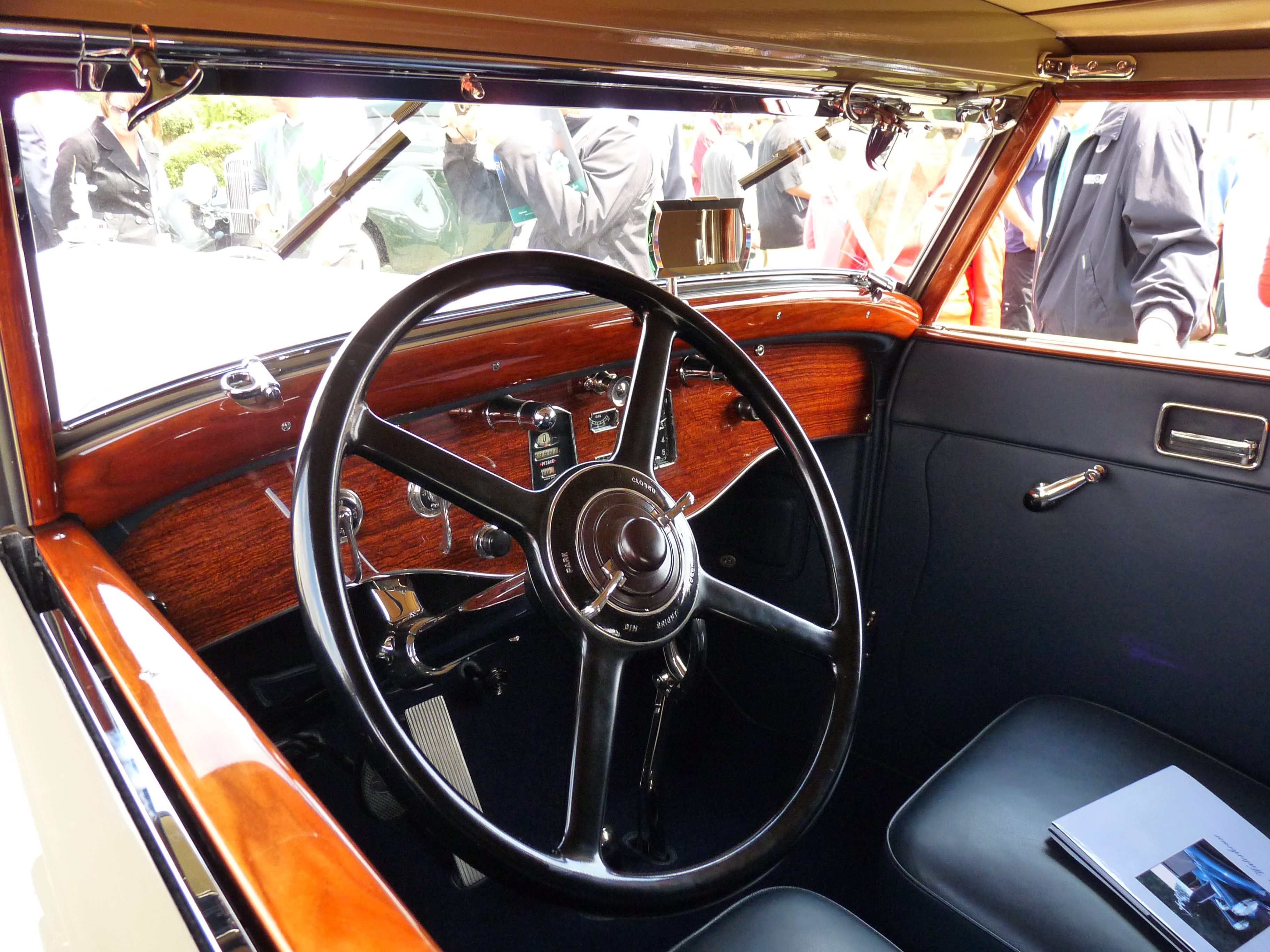 1930 Pierce-Arrow B Waterhouse Convertible Victoria